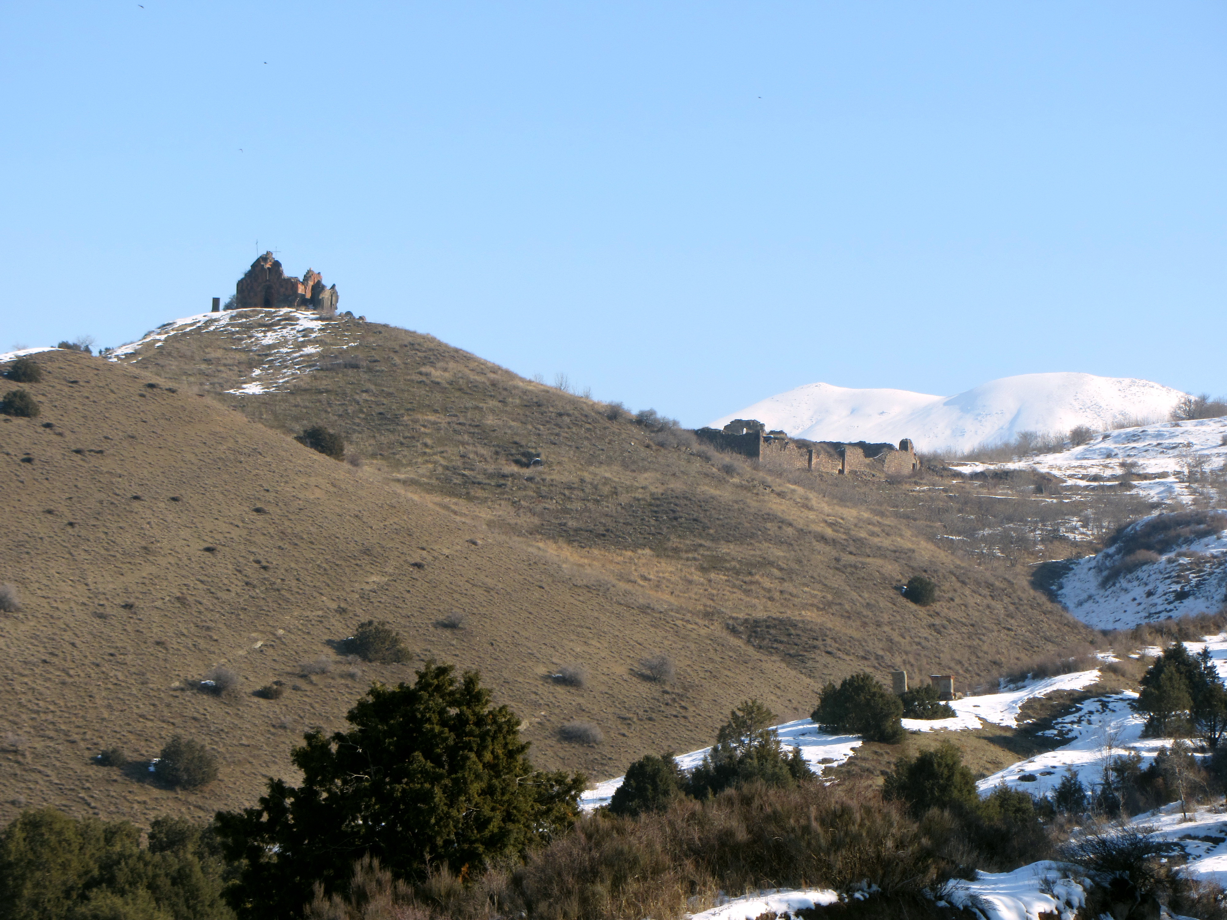 Havuts Tar monastery complex, 11-18 cc.